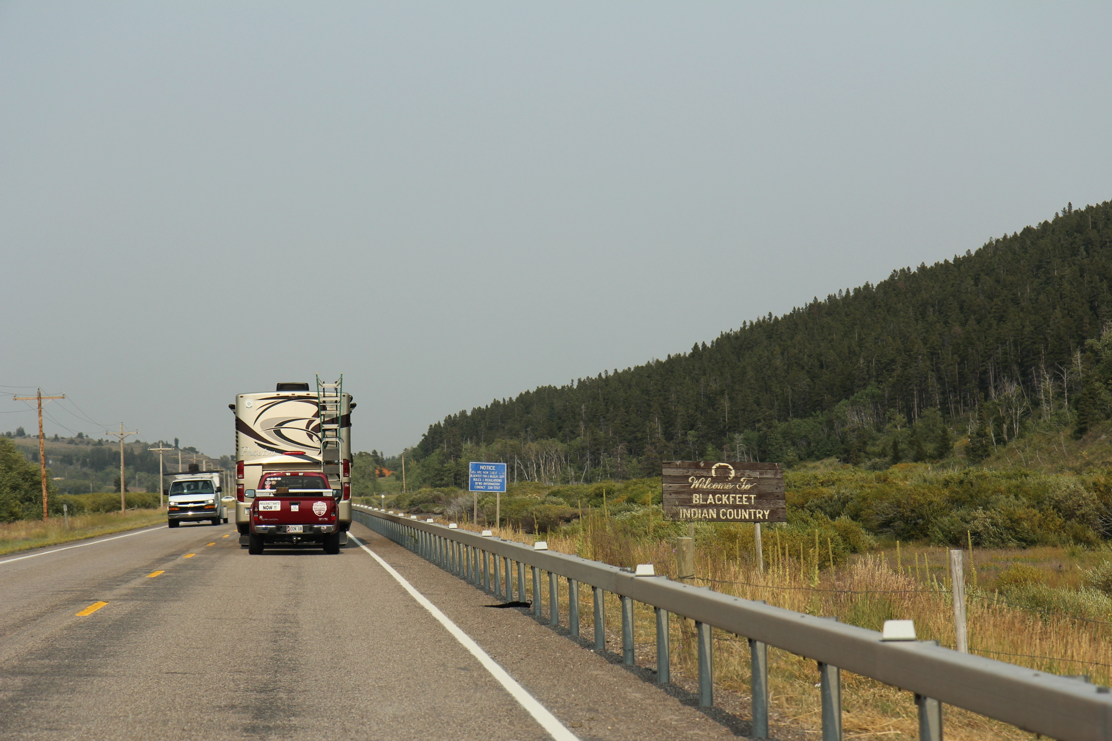 Entering the Blackfeet Reservation on U.S. Route 2 from the east.